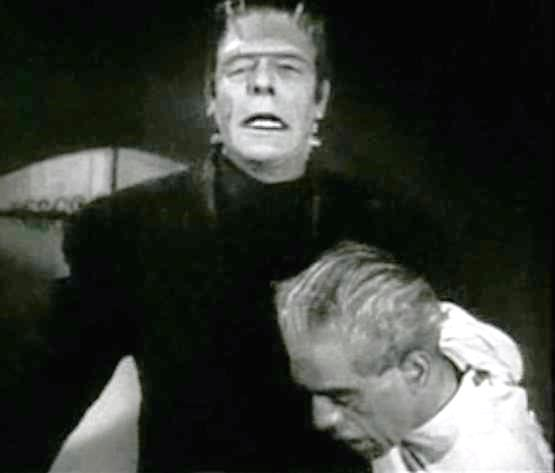 A screenshot of the trailer of House of Frankenstein (1944).